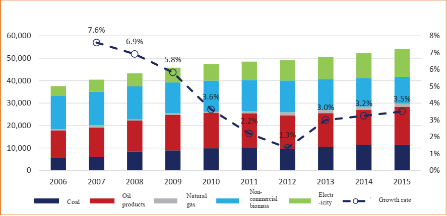 This Graph is extracted from Vietnam Energy Outlook Report 2017 by MOIT and DEA (Danish Energy Agency), available at